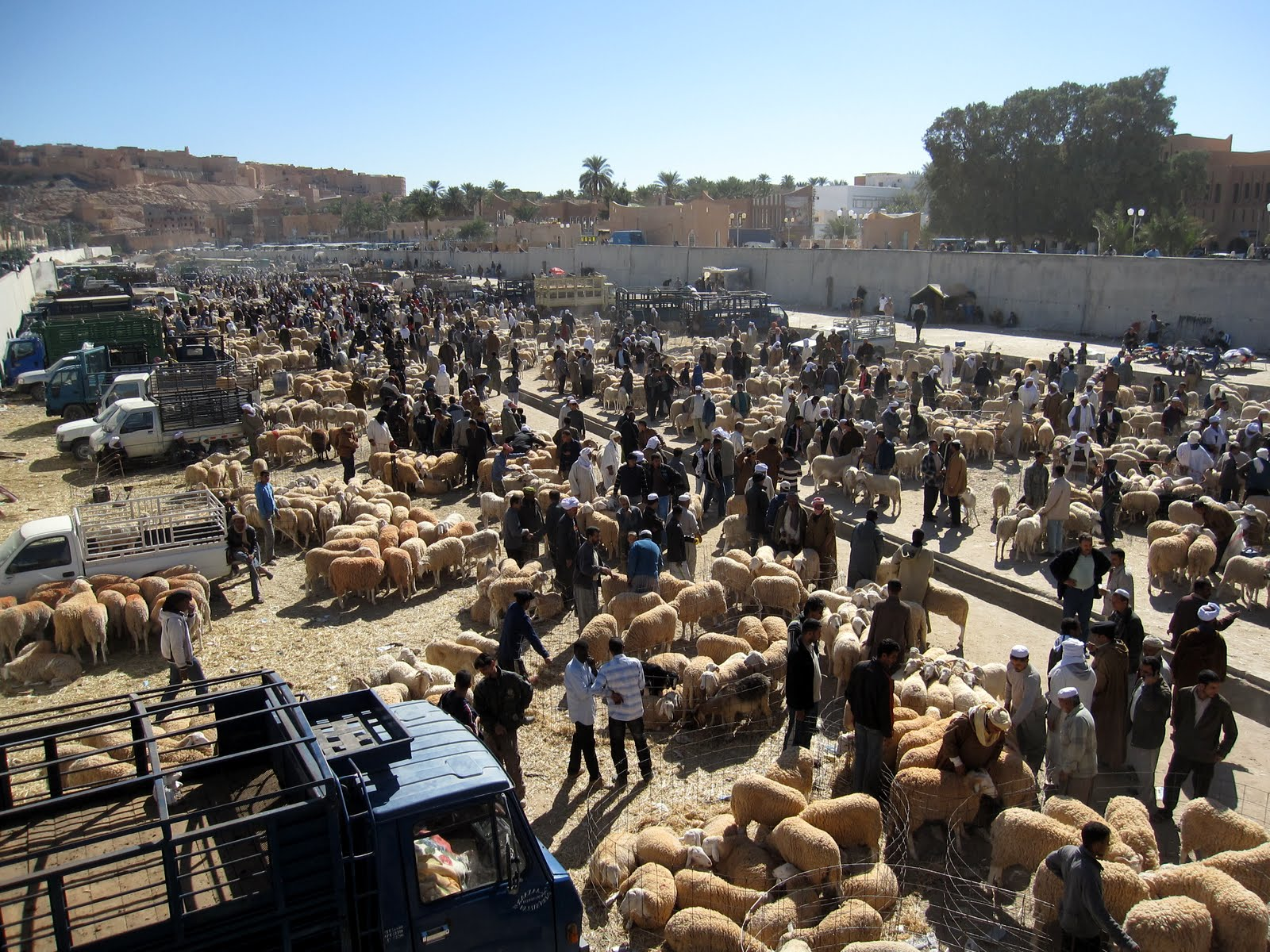 Sheep market buzzing in preparation for Aid el-Kibir, celebrating Abraham's willingness to sacrifice his son, and the end of haj (pilgrimage to Mecca)